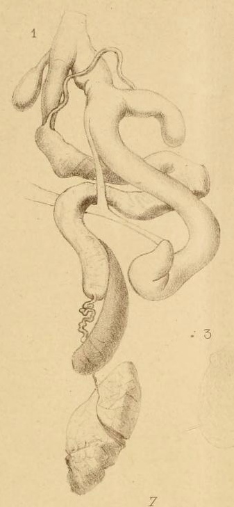 Reproductive system of the slug Eumilax intermittens (called Paralimax intermittens in the original publication): From Biodiversity-Heritage-Library scan of Plate 3 of Pollonera, C. (1887). "Sulla classificazione dei Limacidi del sistema europeo". Bollettino dei Musei di Zoologia ed Anatomia Comparata della Reale Università di Torino 2 (23): 1–6 + pl. 3. The figure caption appears on page 6 ( The plate was drawn by the author Carlo Pollonera, a renowned Italian artist as well as a malacologist.